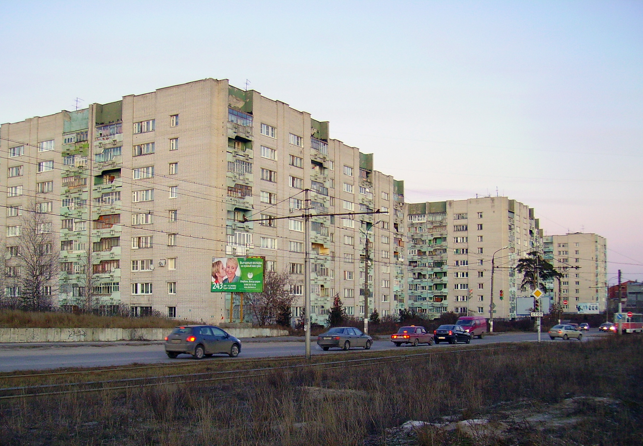 Corner of Samokhvalov Street & Lenin Avenue